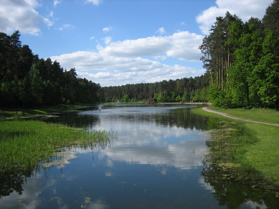 Dailidė lake in Alytus